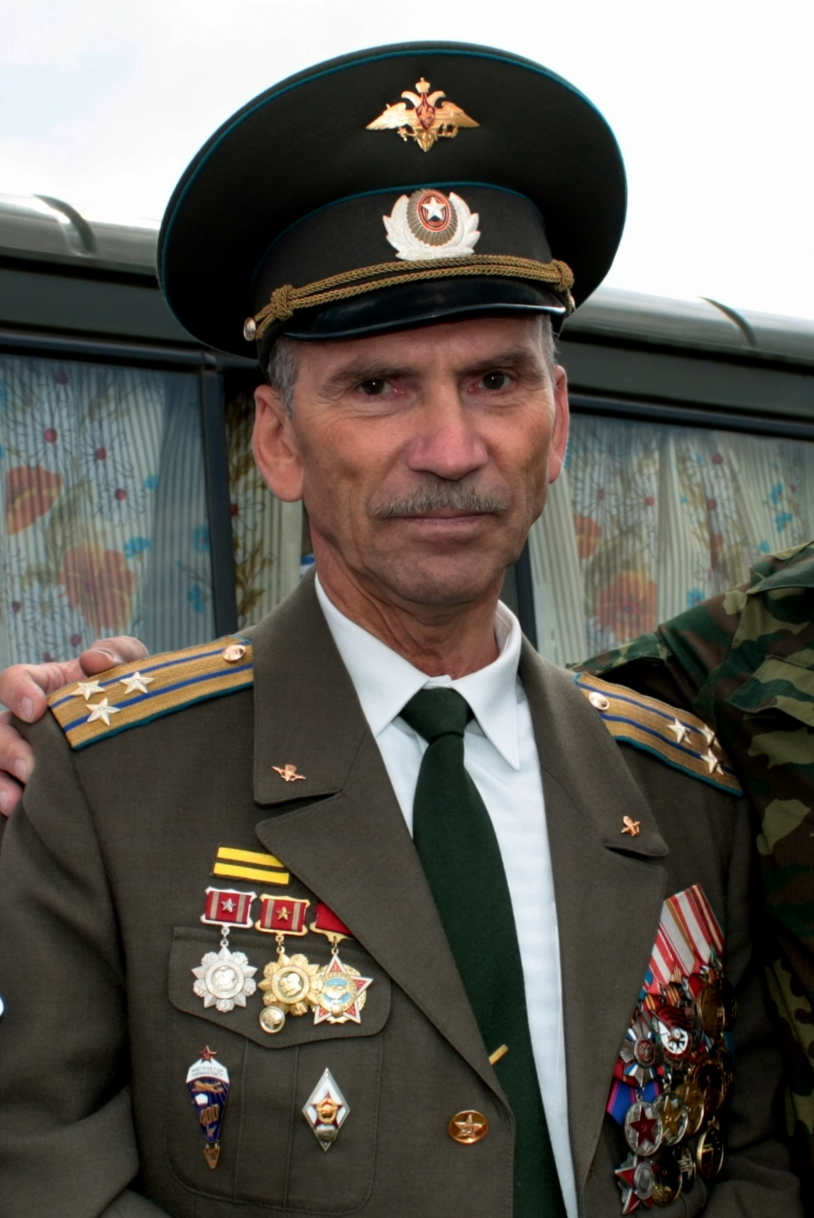 Col. Leonid Khabarov at the Veteran’s Day, prior to the arrest.